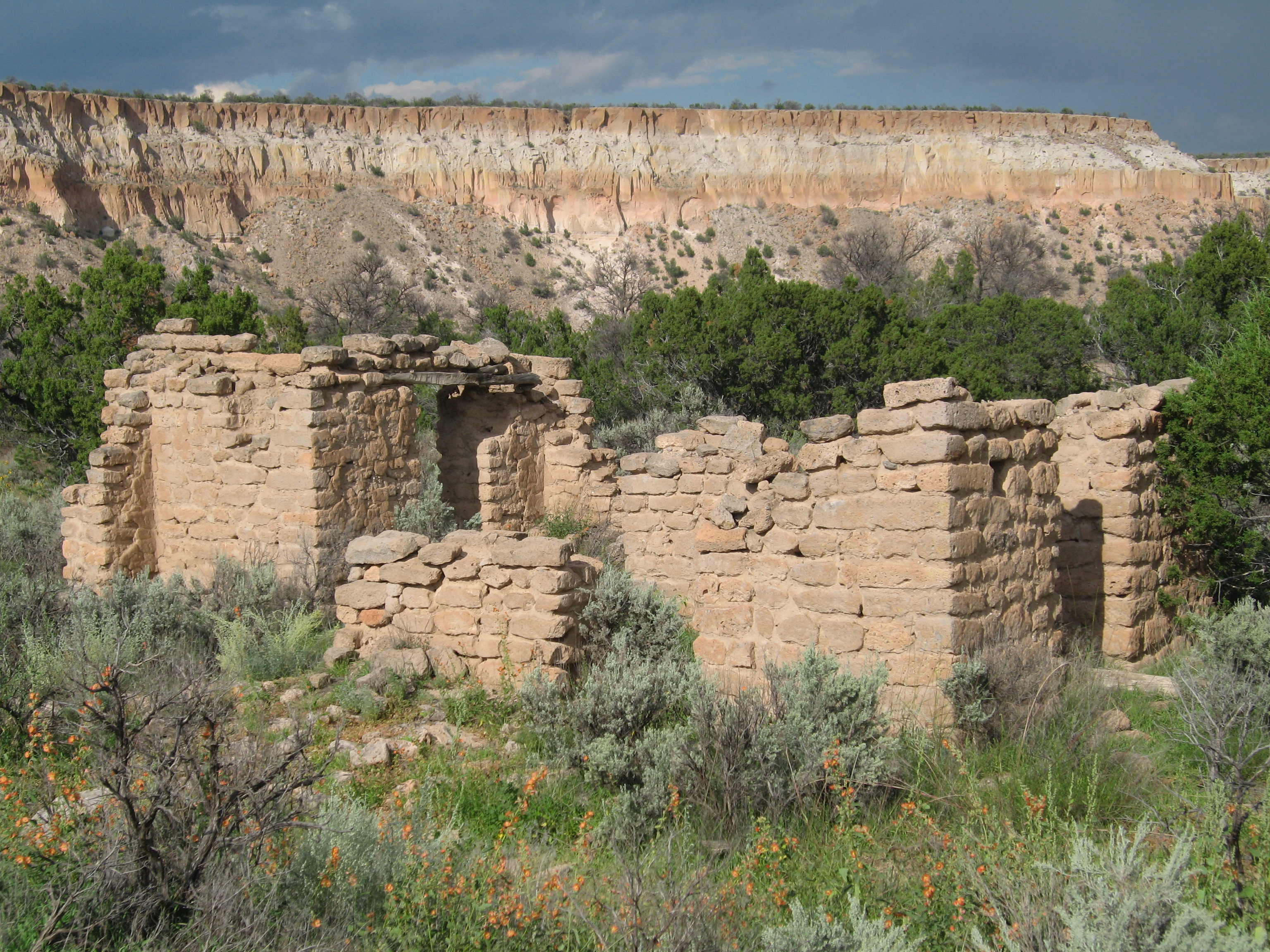 These remains of Duchess Castle (built circa 1918) are located northeast of the Tsankawi mesa. This view is looking toward the northeast.